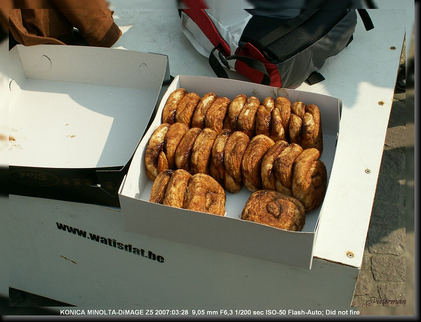 Zeeuwse bolussen in a cake box, delicious sweet dish from Zeeland area